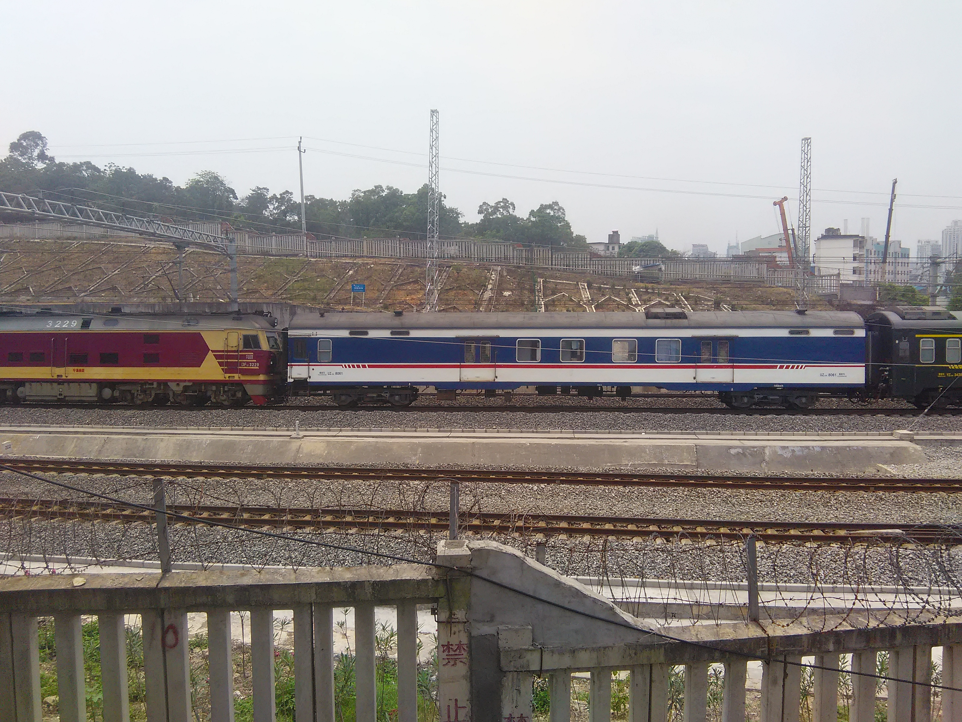 T290 Through Train's post wagon.